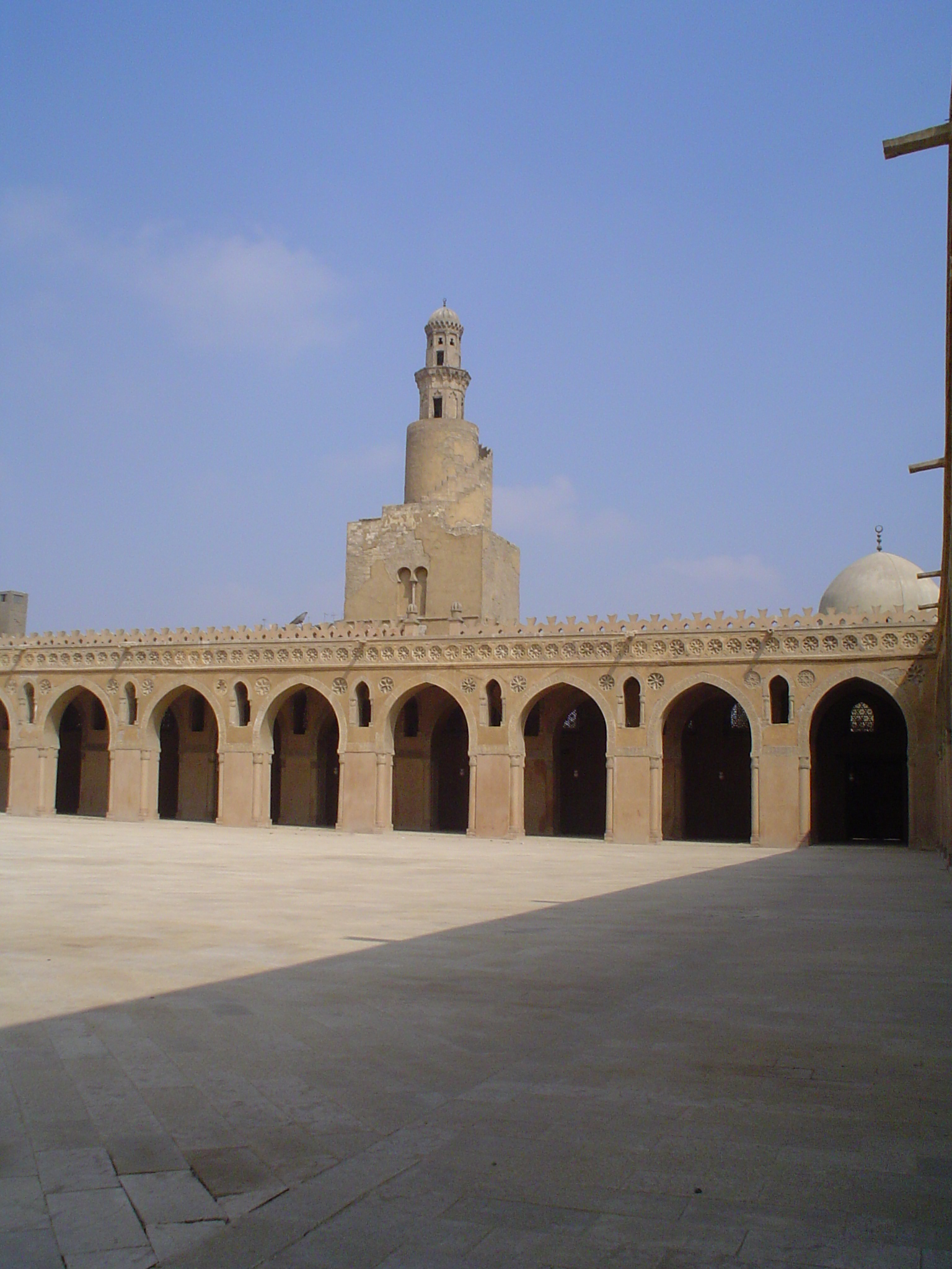 The Minaret of Ibn Tulun mosque in Cairo, Egypt.